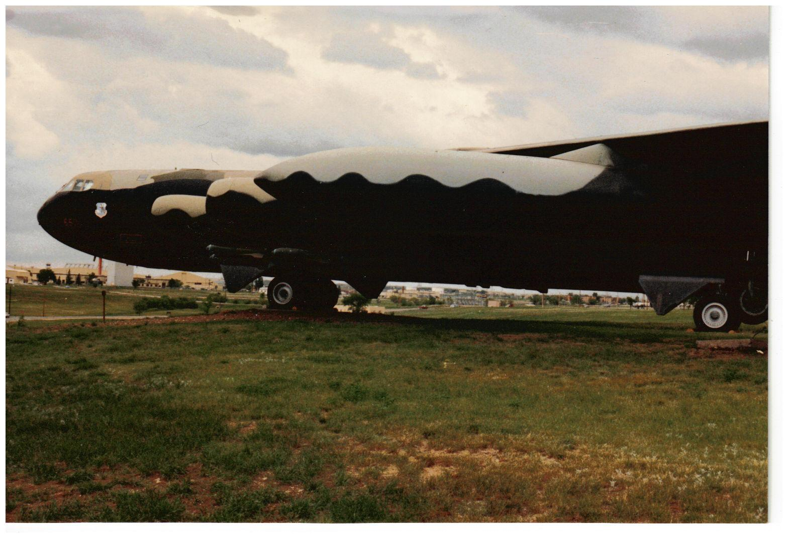 B-52D s/n 55-0657 on display at Ellsworth AFB, Rapid City, South Dakota, now South Dakota Armed Forces and Aerospace Museum. Taken 1988-89 by Lance Barber, 35mm Prakteka Camera